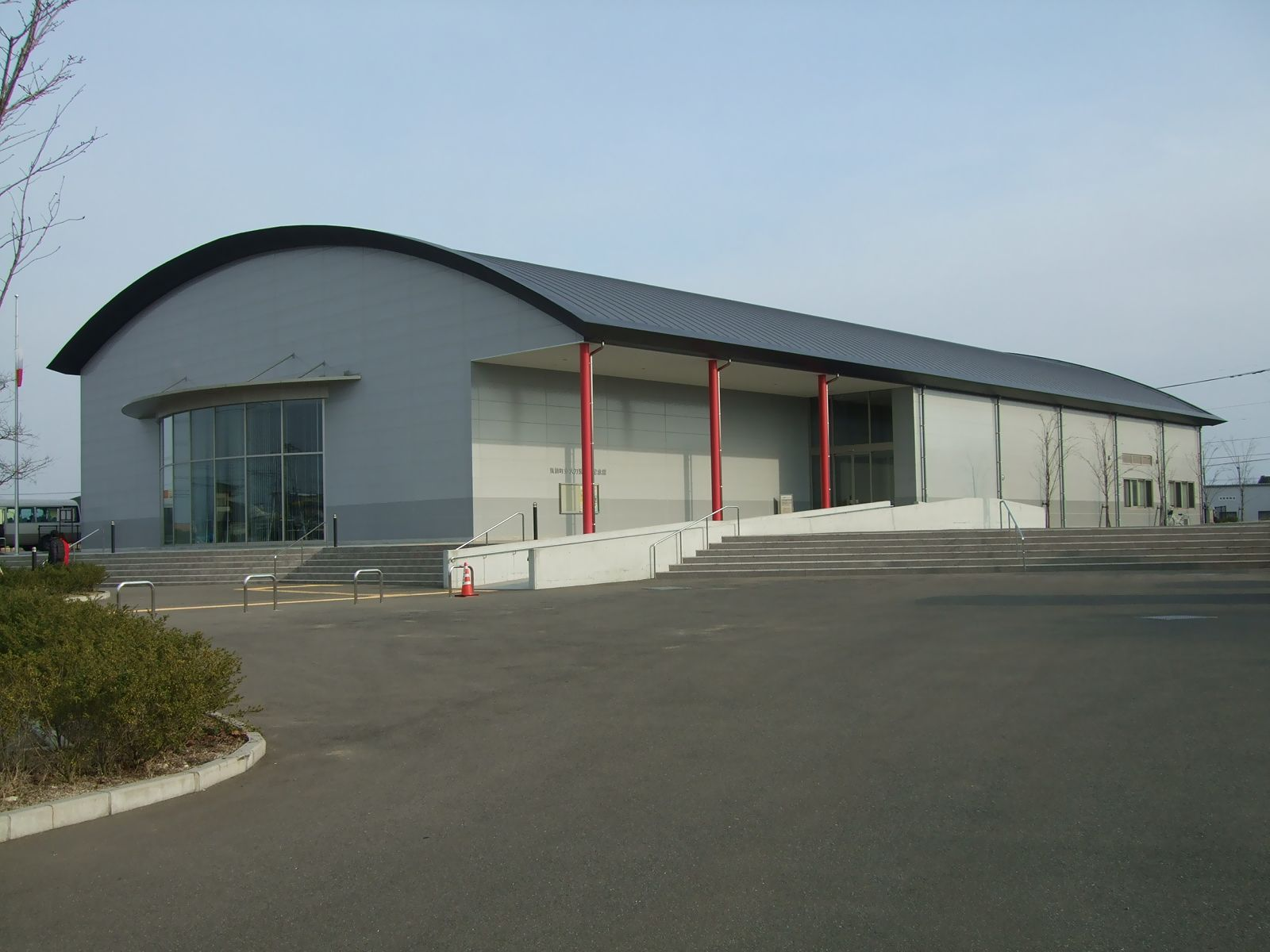 Chikuzenmachi Tachiarai peace memorial museum